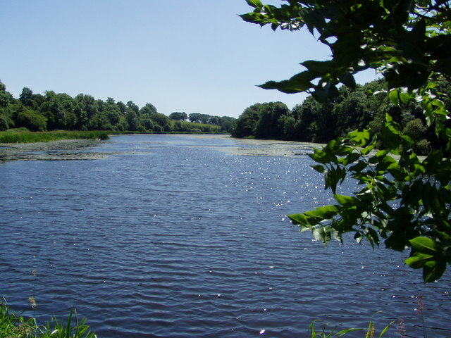 Lagan Canal The Broadwater